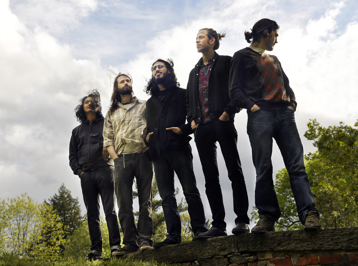 Ayurveda photo shoot